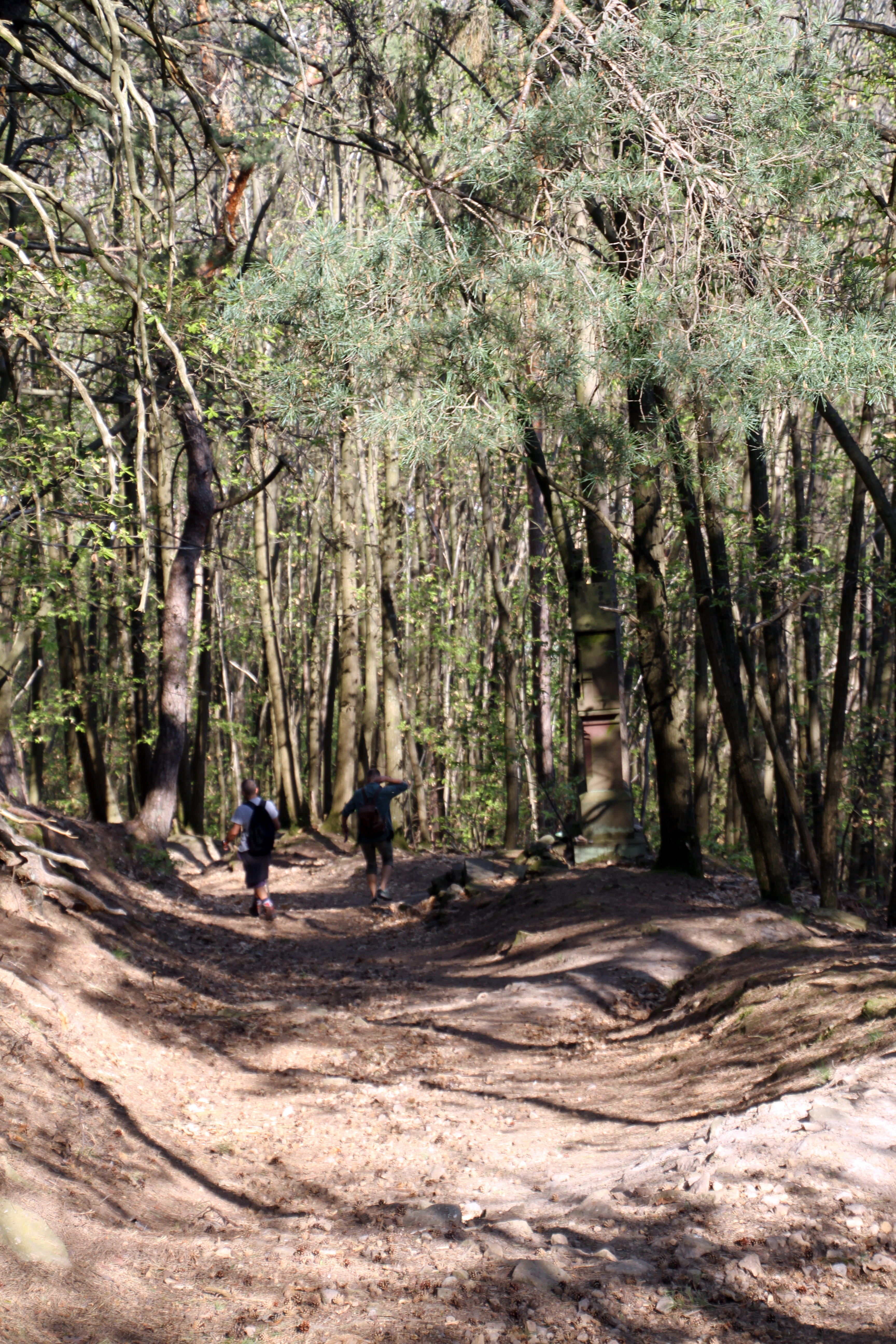 Stations of the Cross from the Church of the Visitation to the Anna Chapel in Burrweiler.